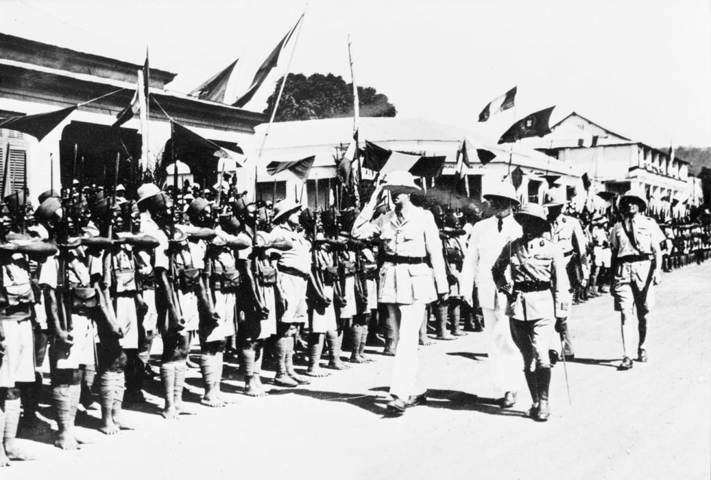 From Bangui to Syria: towards the first operation of the Oubangui-Chari Marching Battalion.